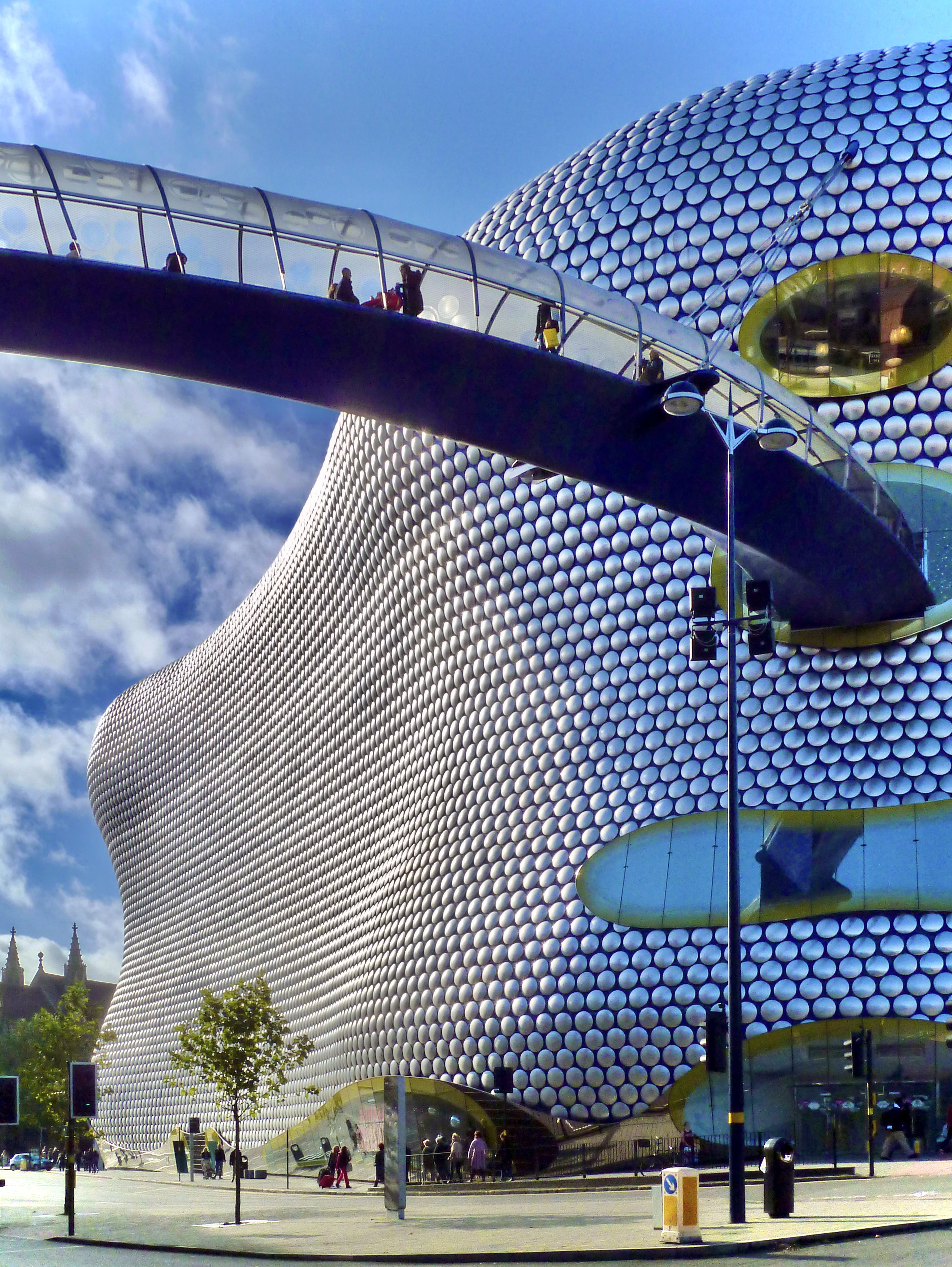 Selfridges Building, Birmingham